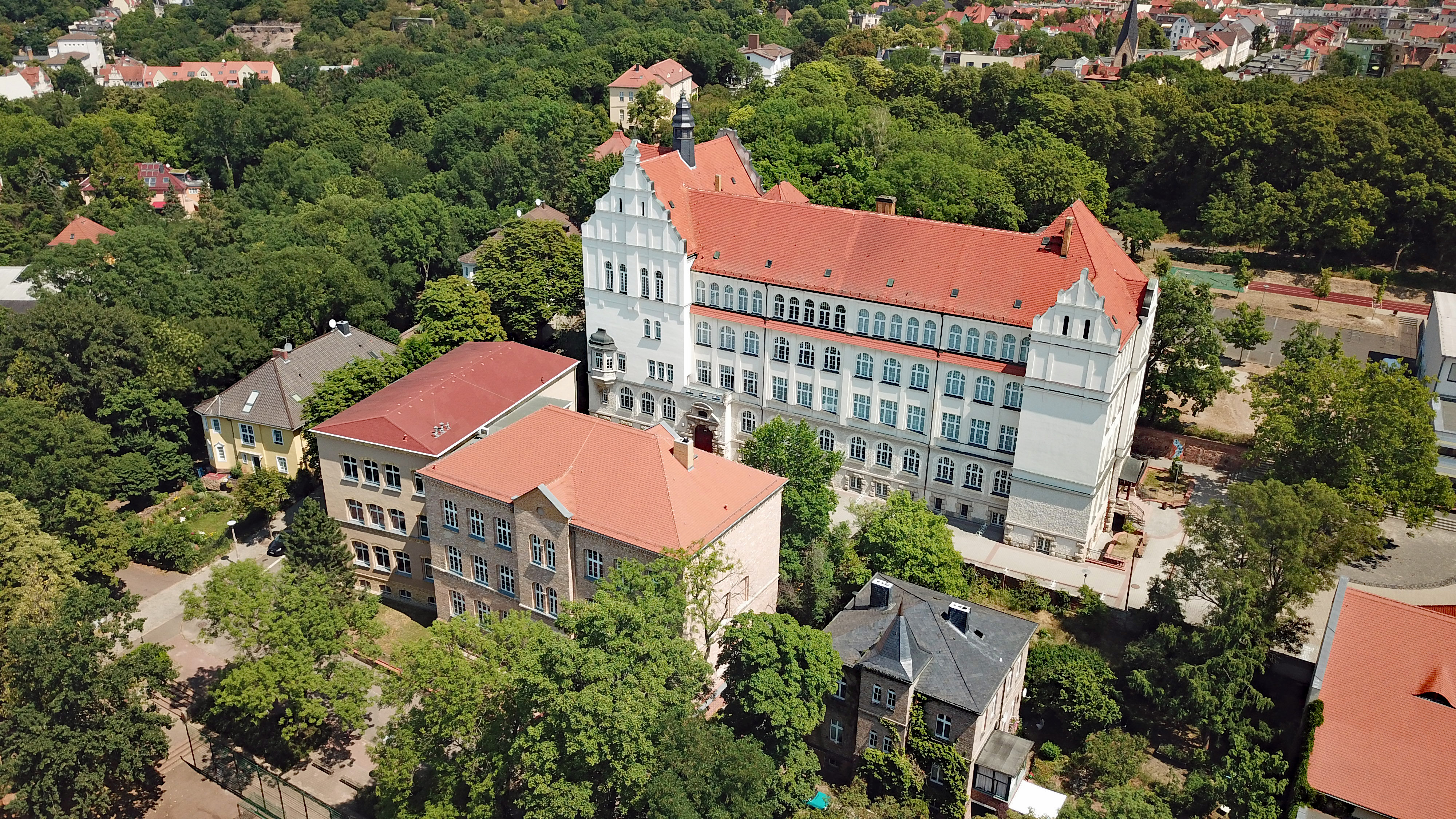 Halle, Giebichenstein-Gymnasium "Thomas Müntzer" (Saxony-Anhalt, Germany)